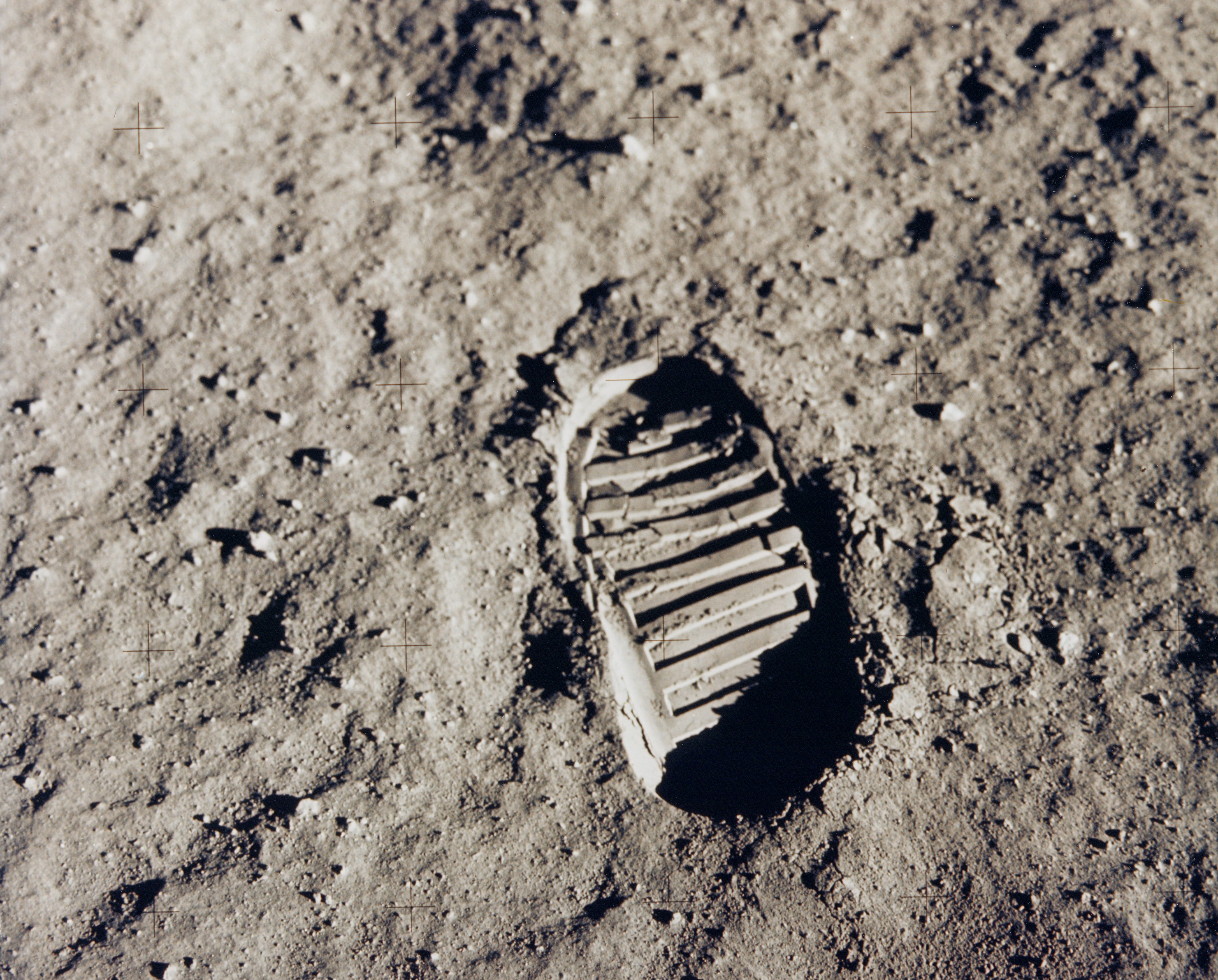 Bootprint in lunar dust created and photographed by Buzz Aldrin for the boot penetration (soil mechanics) task during the Apollo 11 moon walk.